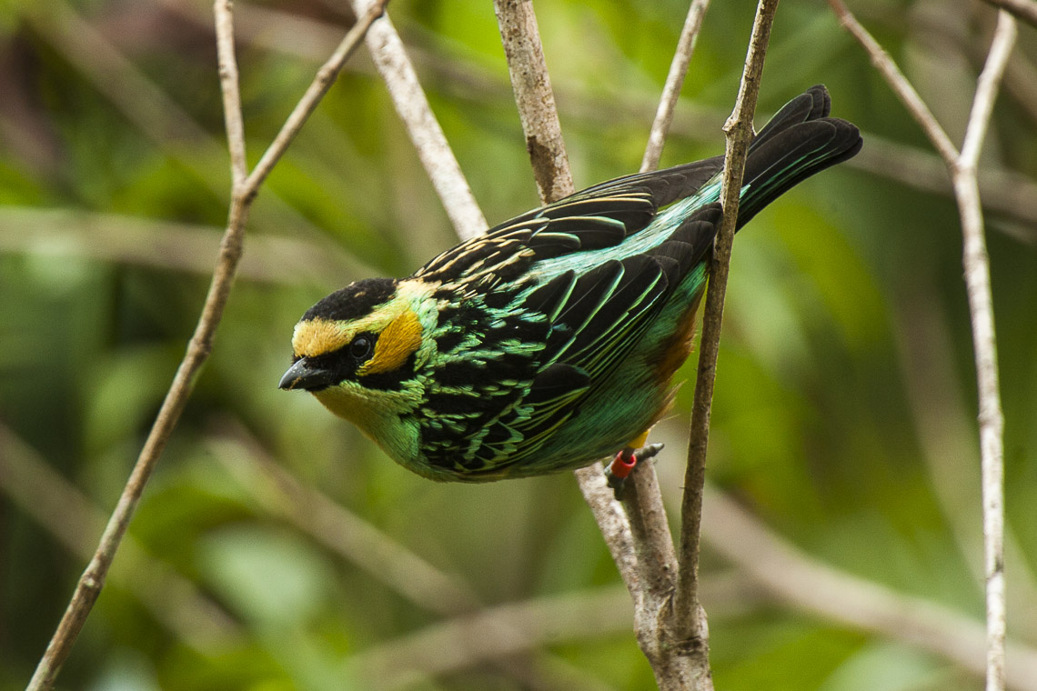 Golden-eared Tanager - Manu NP - Perù_7900